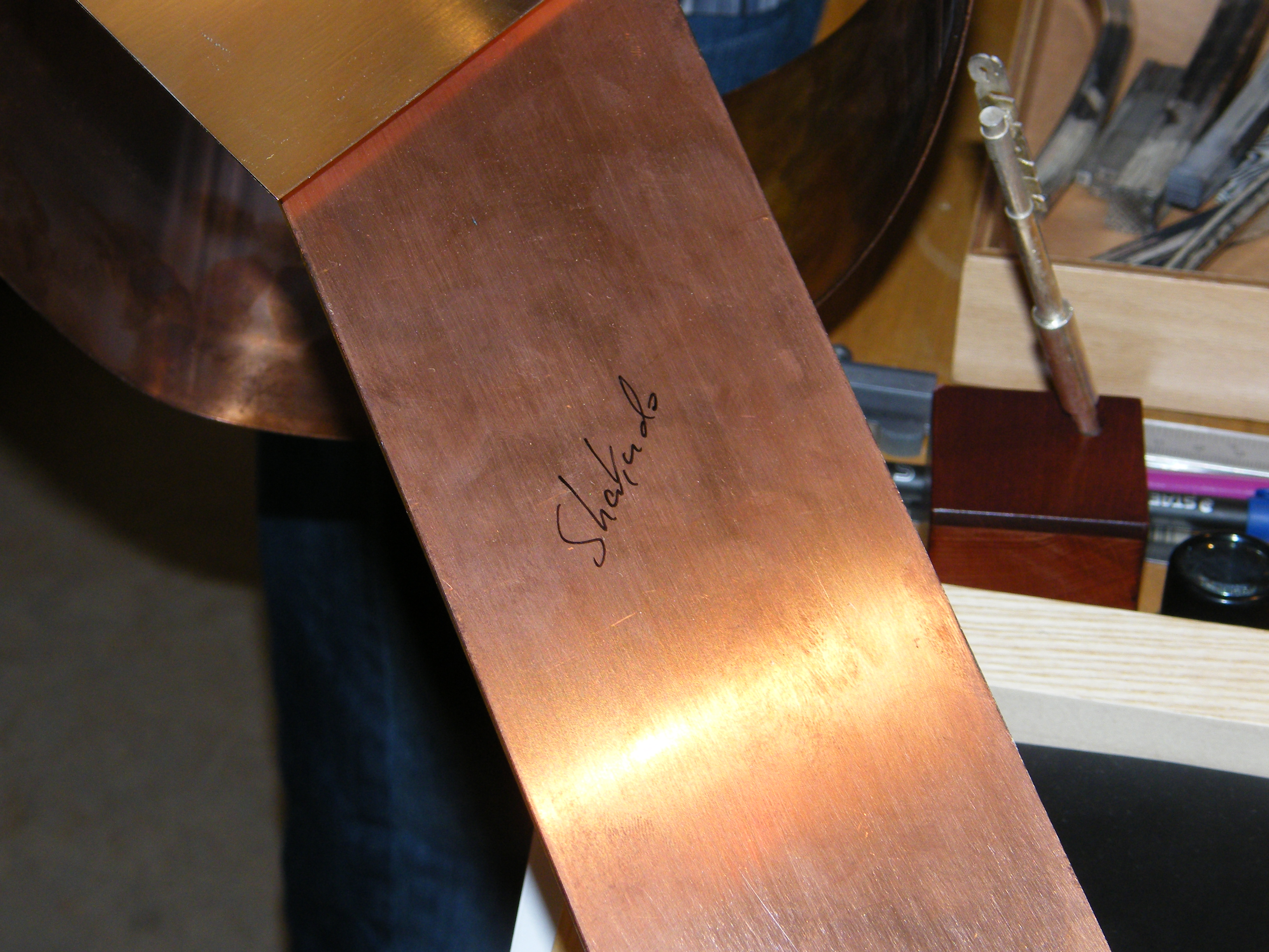 Own picture of shakudo. Take at the aas event Dr. Andreas Neumann (aas) and Markus Eckardt in Ensdorf.